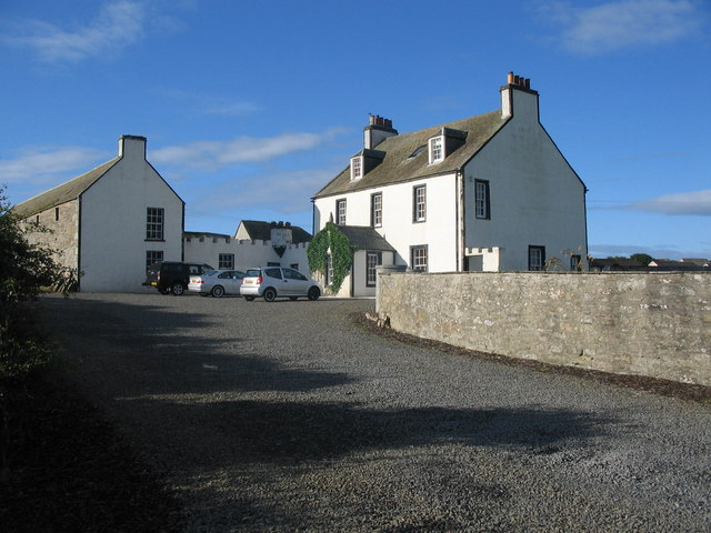 Pennyland House. A view looking south from the A9 towards Pennyland House, birthplace of Sir William Alexander Smith, founder of the Boys Brigade.